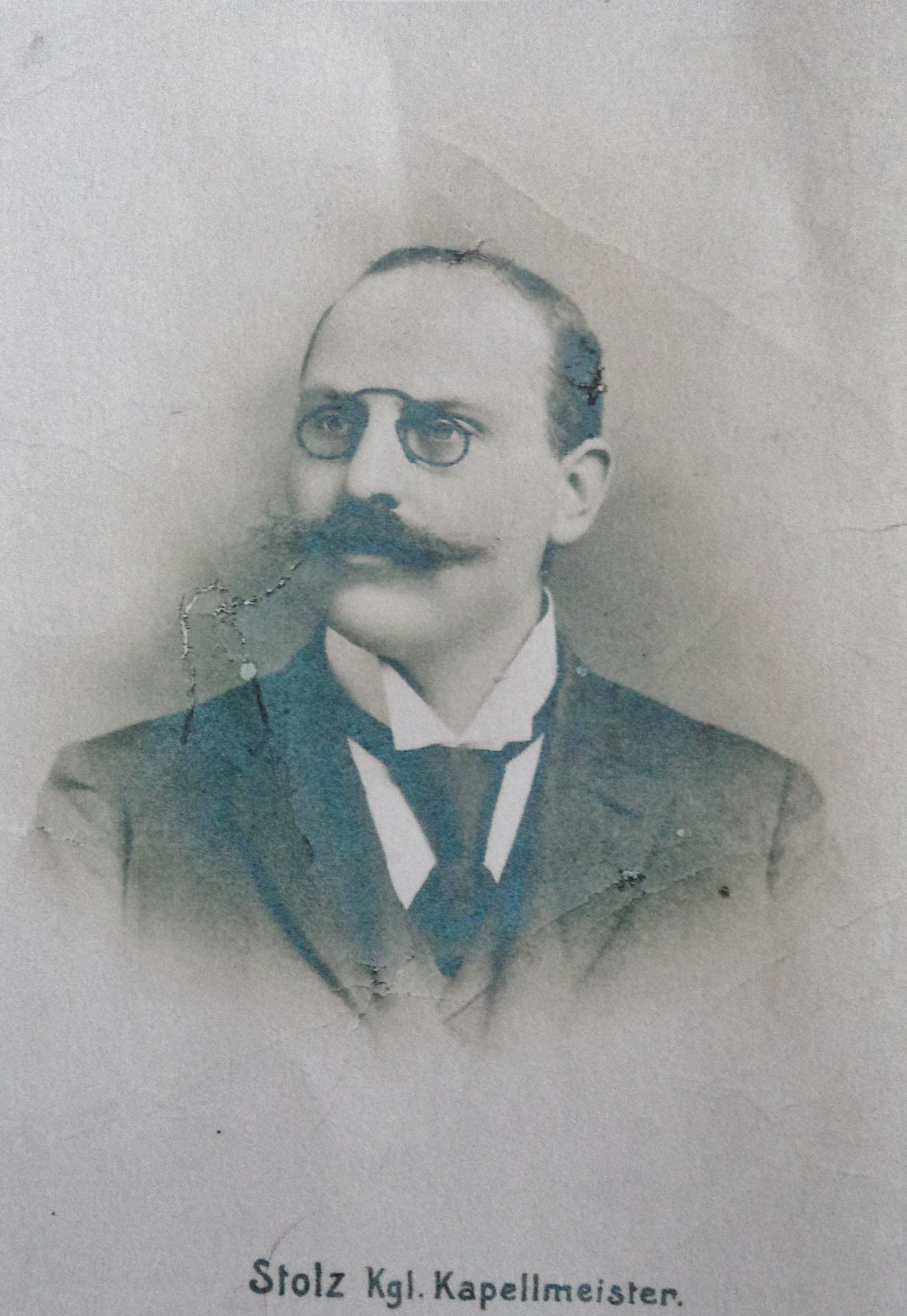 Leopold Stolz, Conductor